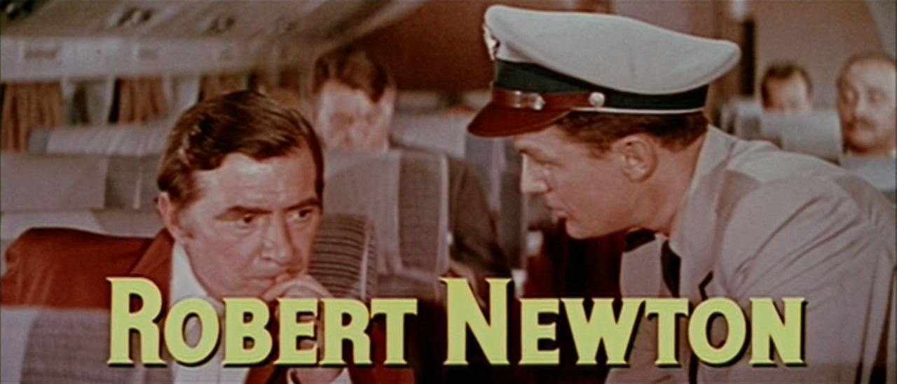 Screenshot showing Robert Newton from the film The High and the Mighty.